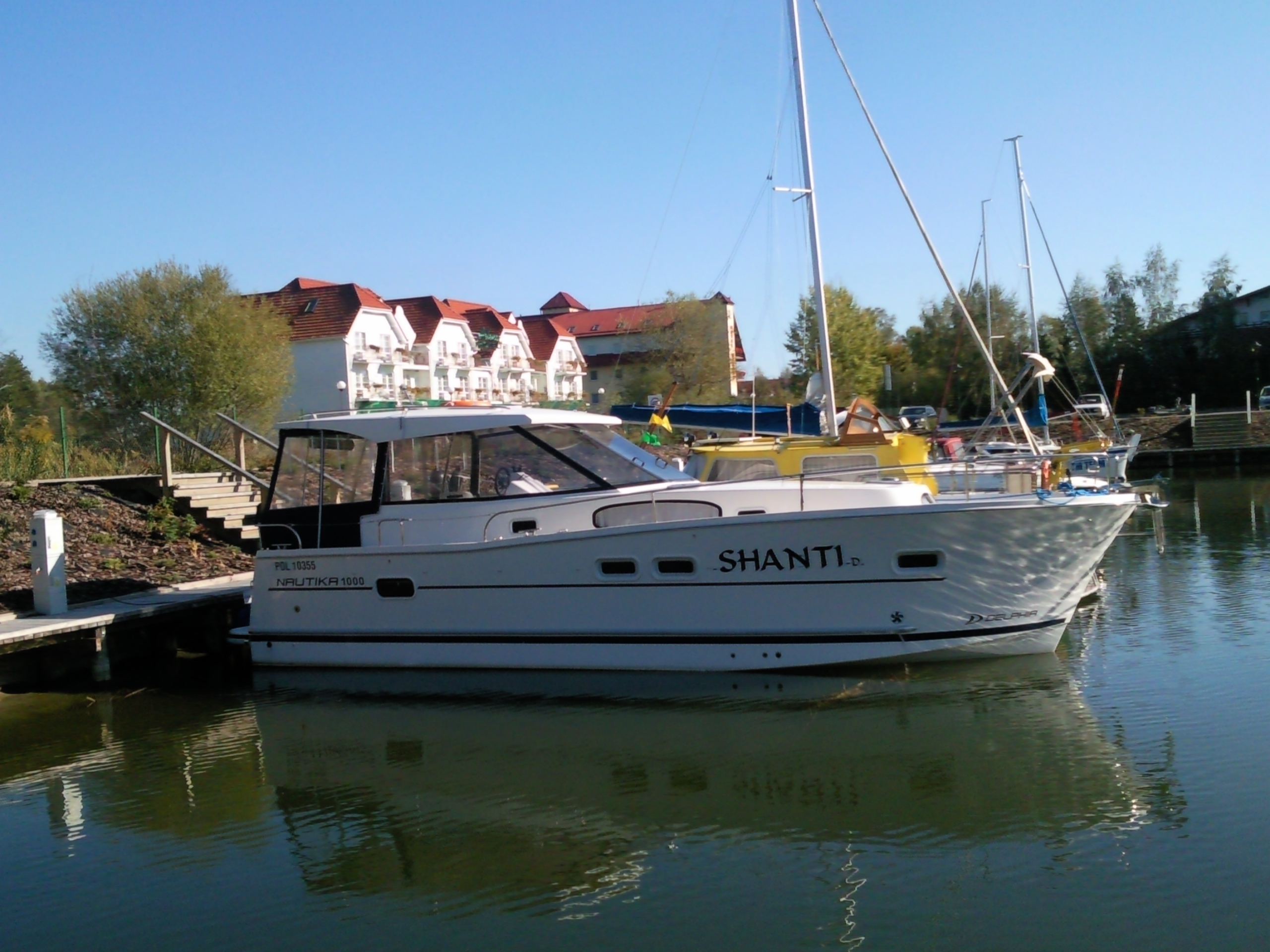 Houseboat Nautika 1000 (Delphia 1050 Escape) producer: Delpia Yachts shipyard Olecko, Giżycko, Mazurien Lakes, Poland